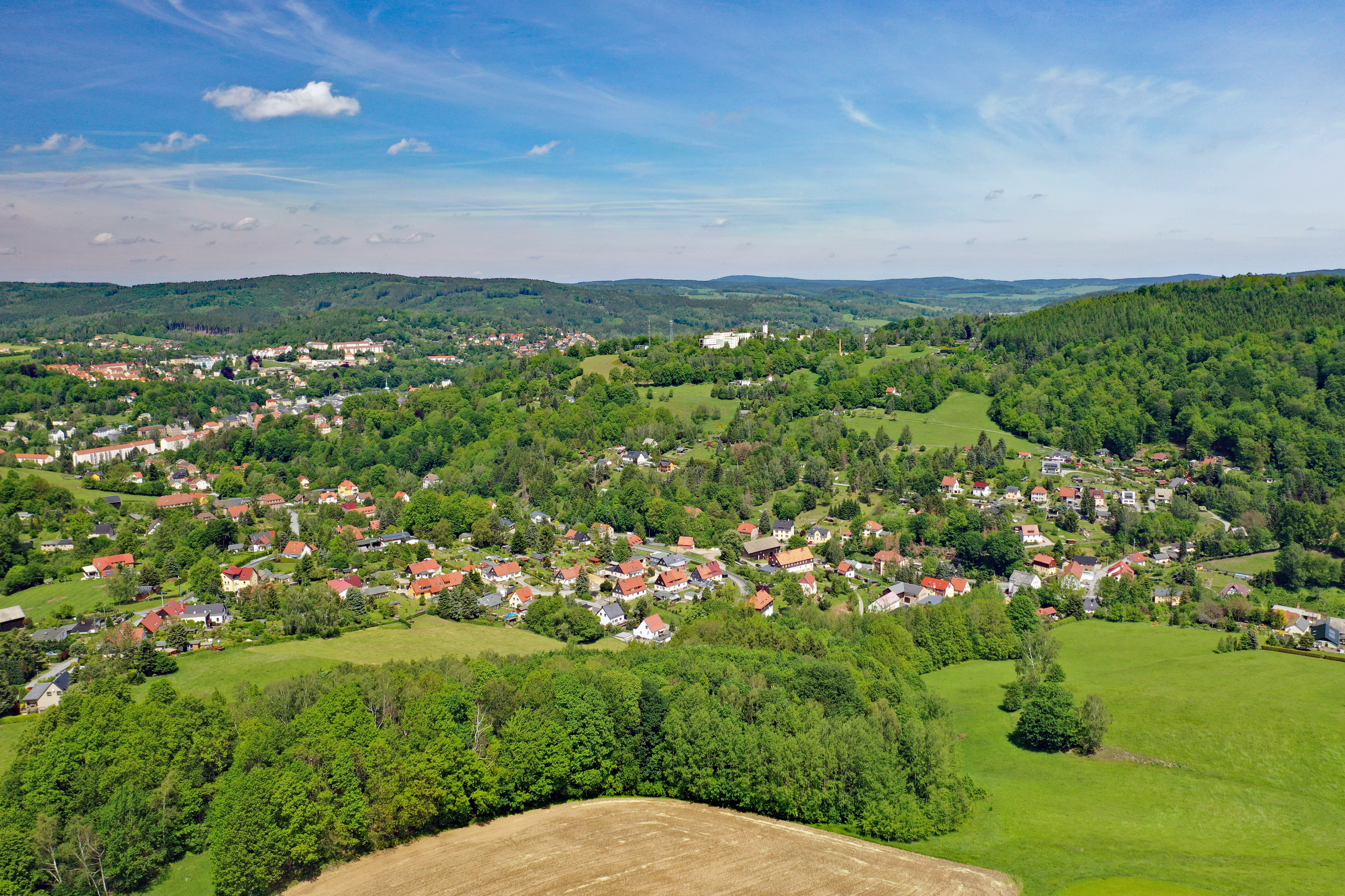 Hertwigswalde (Sebnitz, Saxony, Germany)